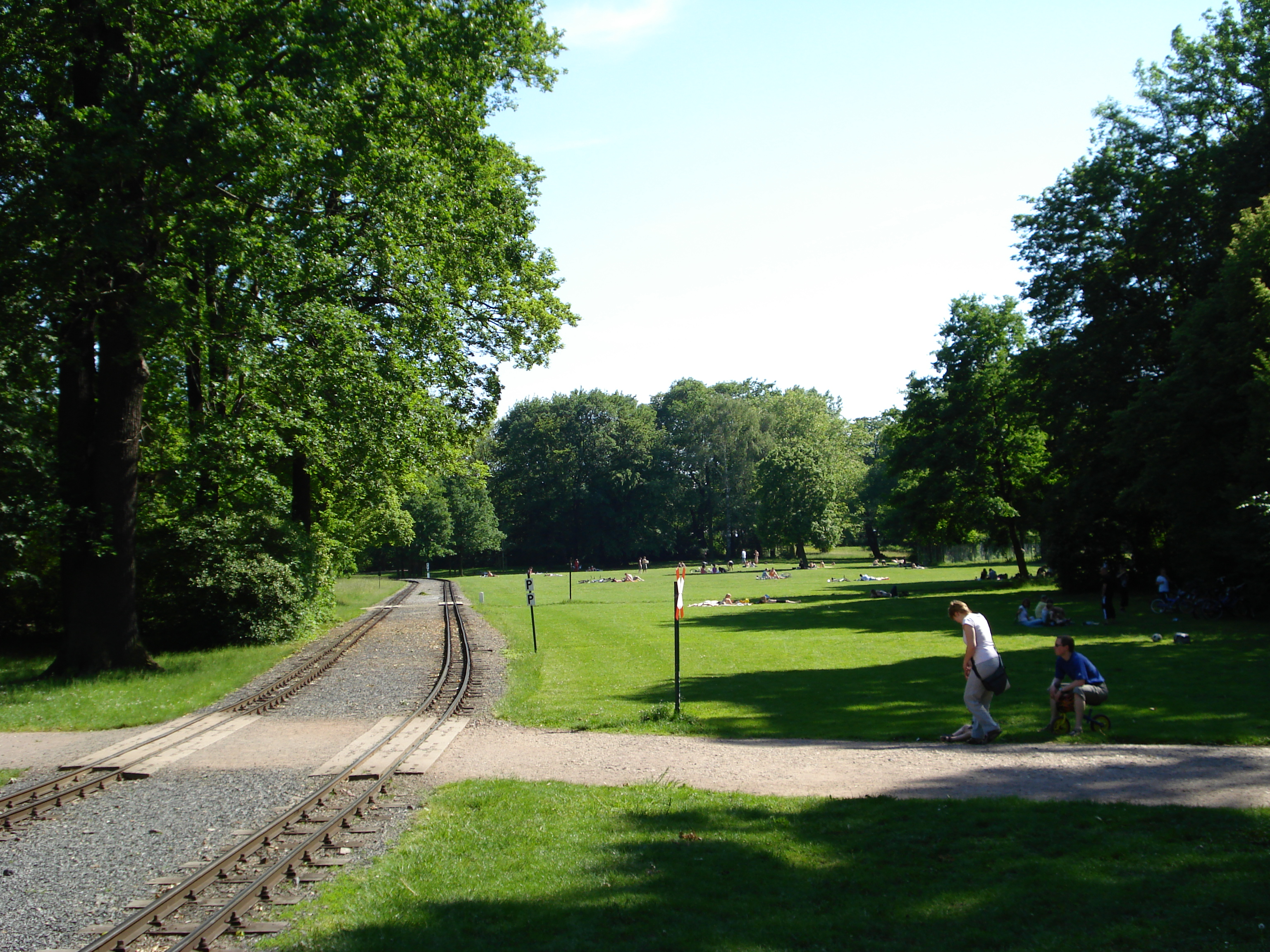 The area of the City Park Dresden (Großer Garten Dresden)